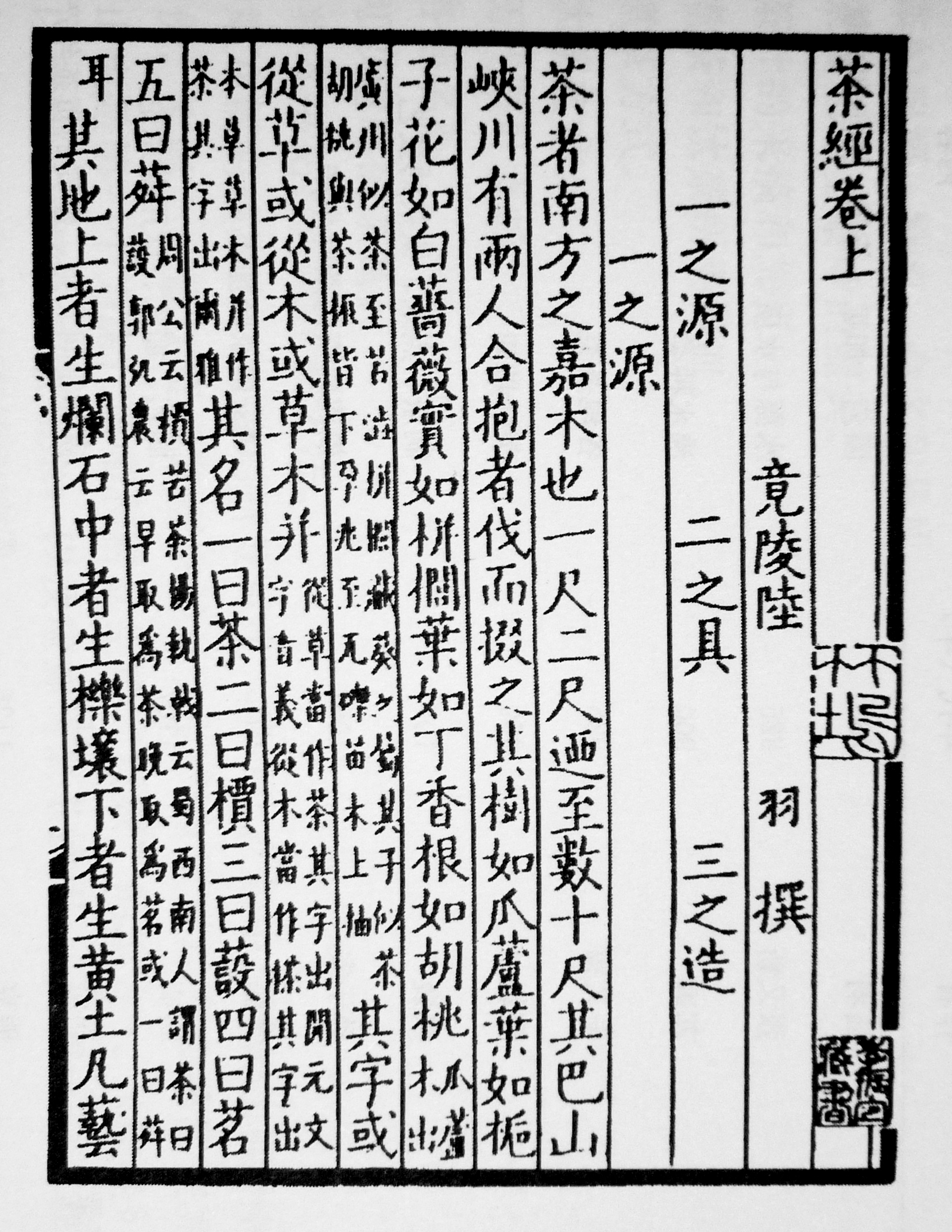 First page of The Classic of Tea